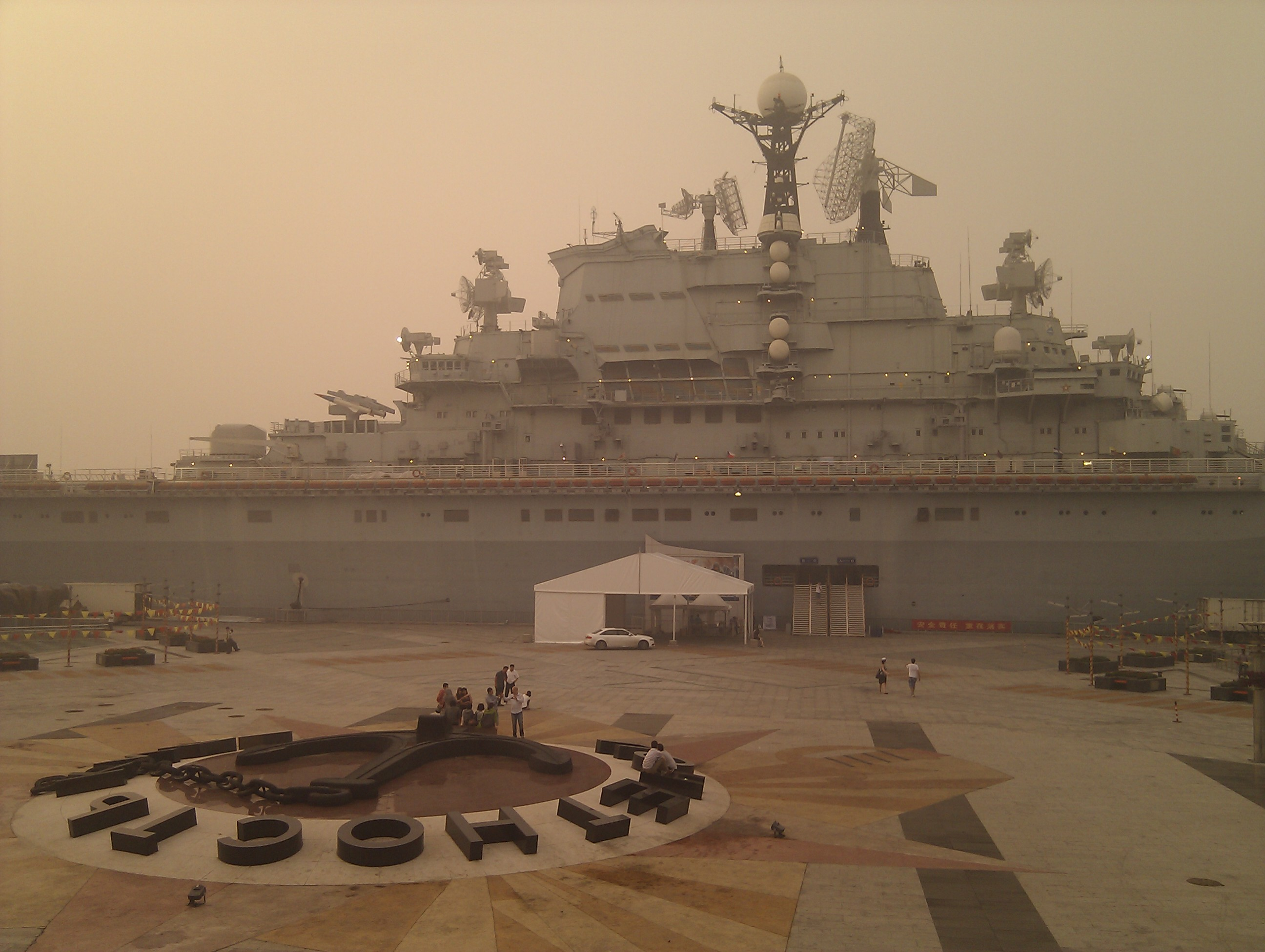 Binhai aircraft carrier theme park